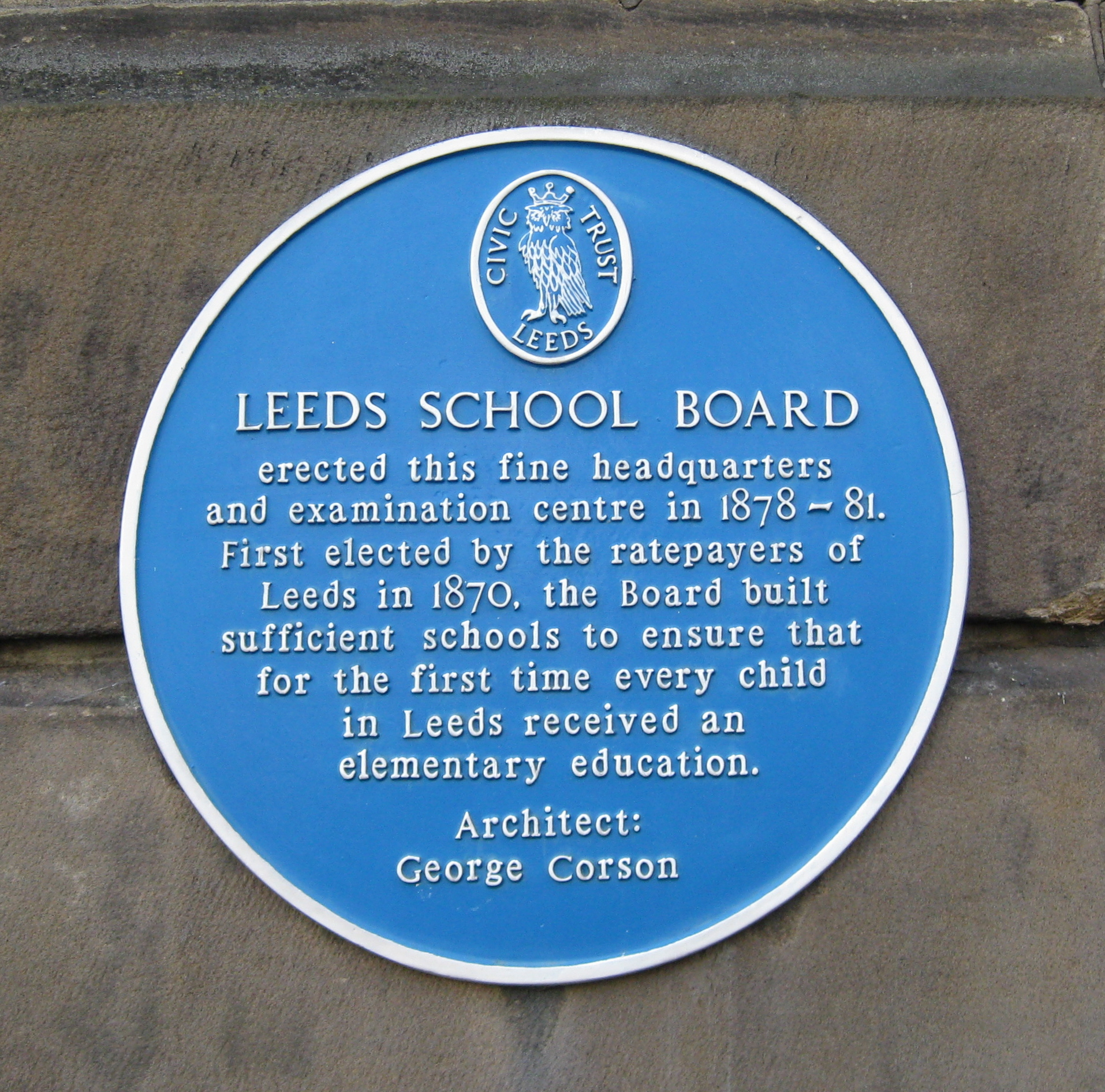 Leeds School Board blue plaque, Civic Court, Calverley Street, Leeds LS1 3ED